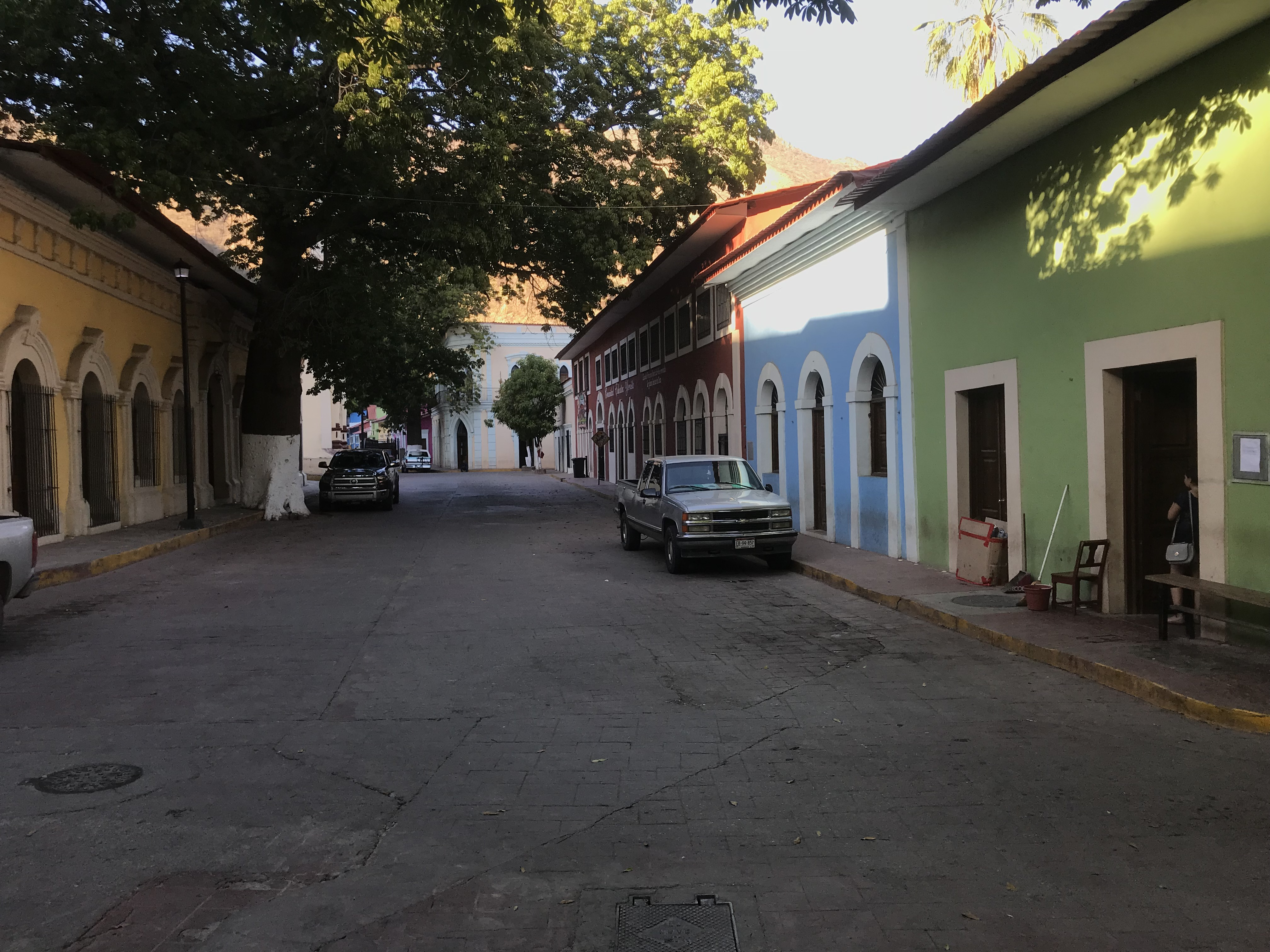 Quaint street in downtown Batopilas